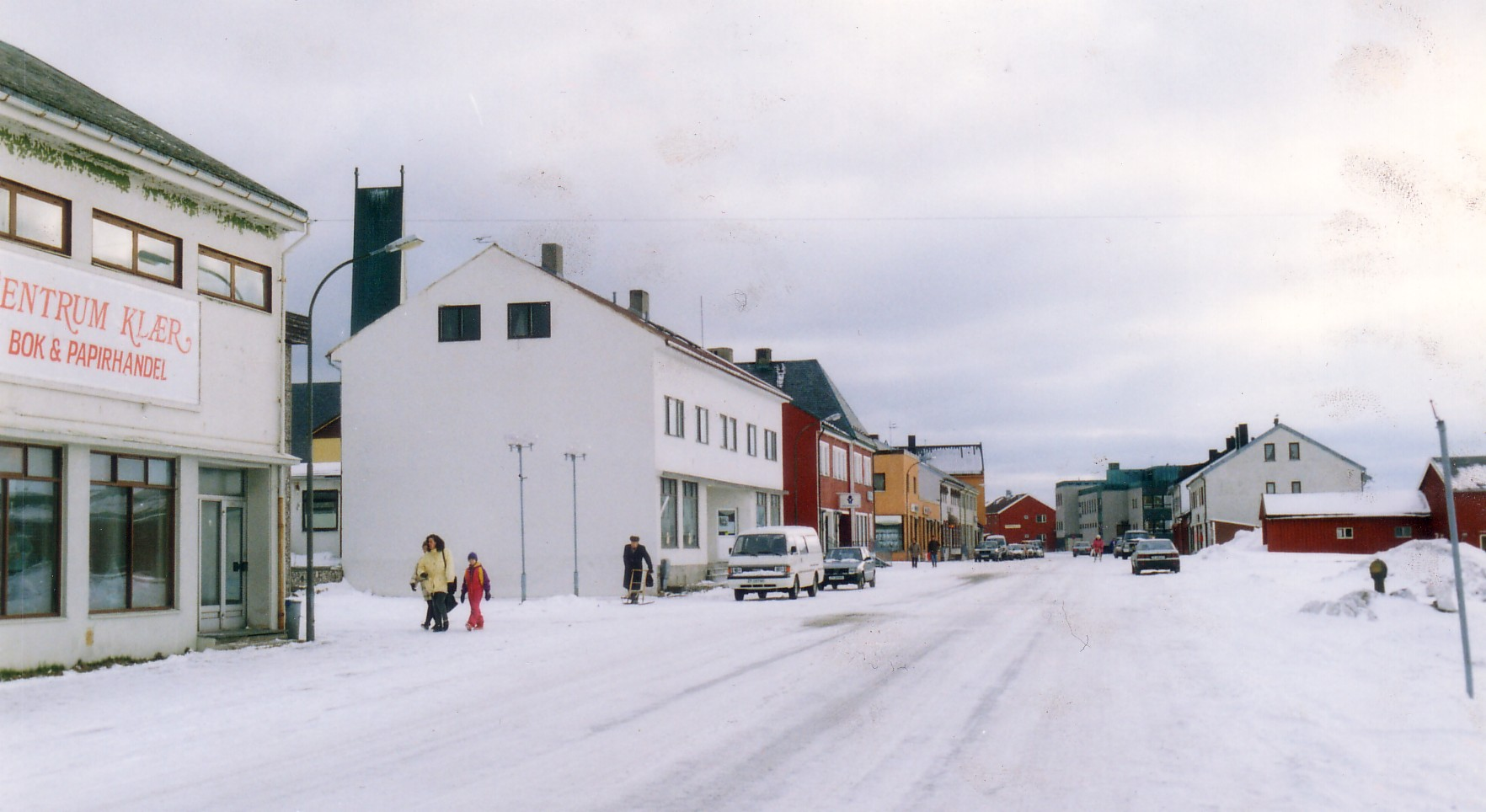 The street of Strandgaten in Vardø, North Norway. Winter 1992.